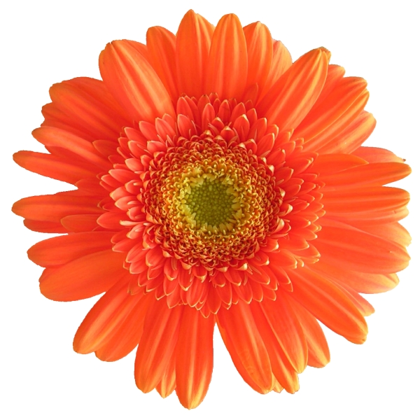 Gerbera (white background)